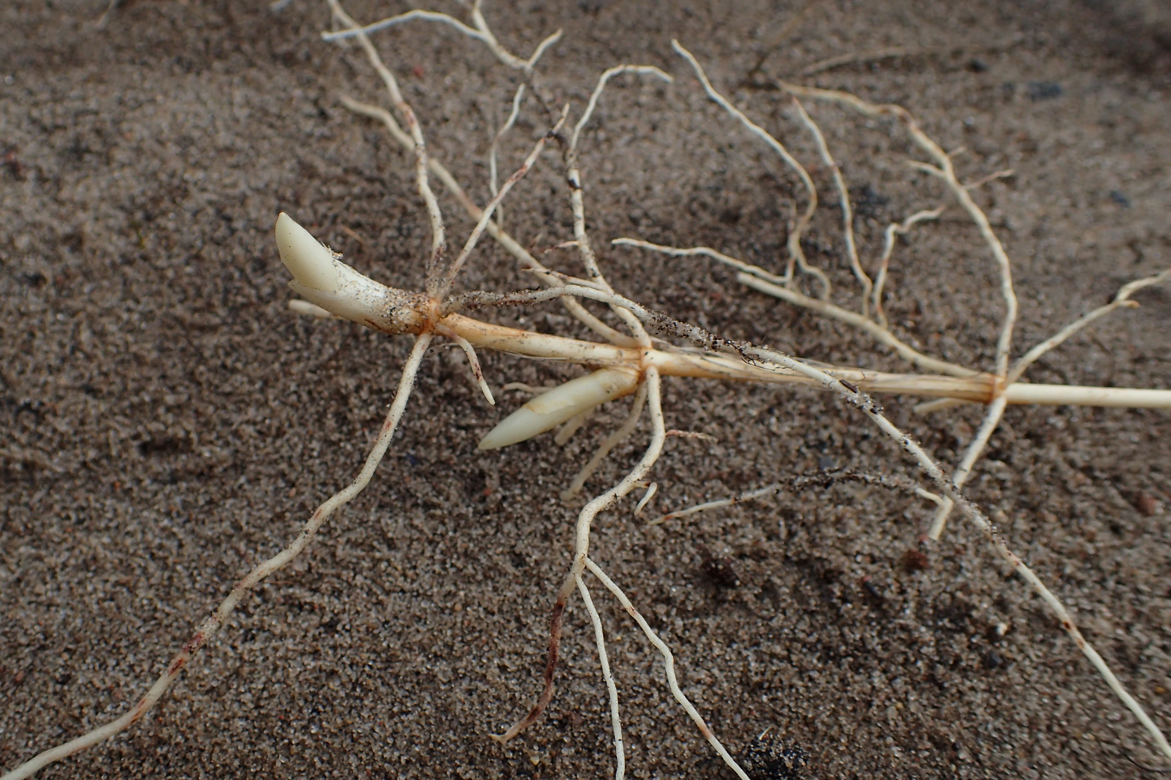 Convallaria majalis rhizome. Szczecin, NW Poland